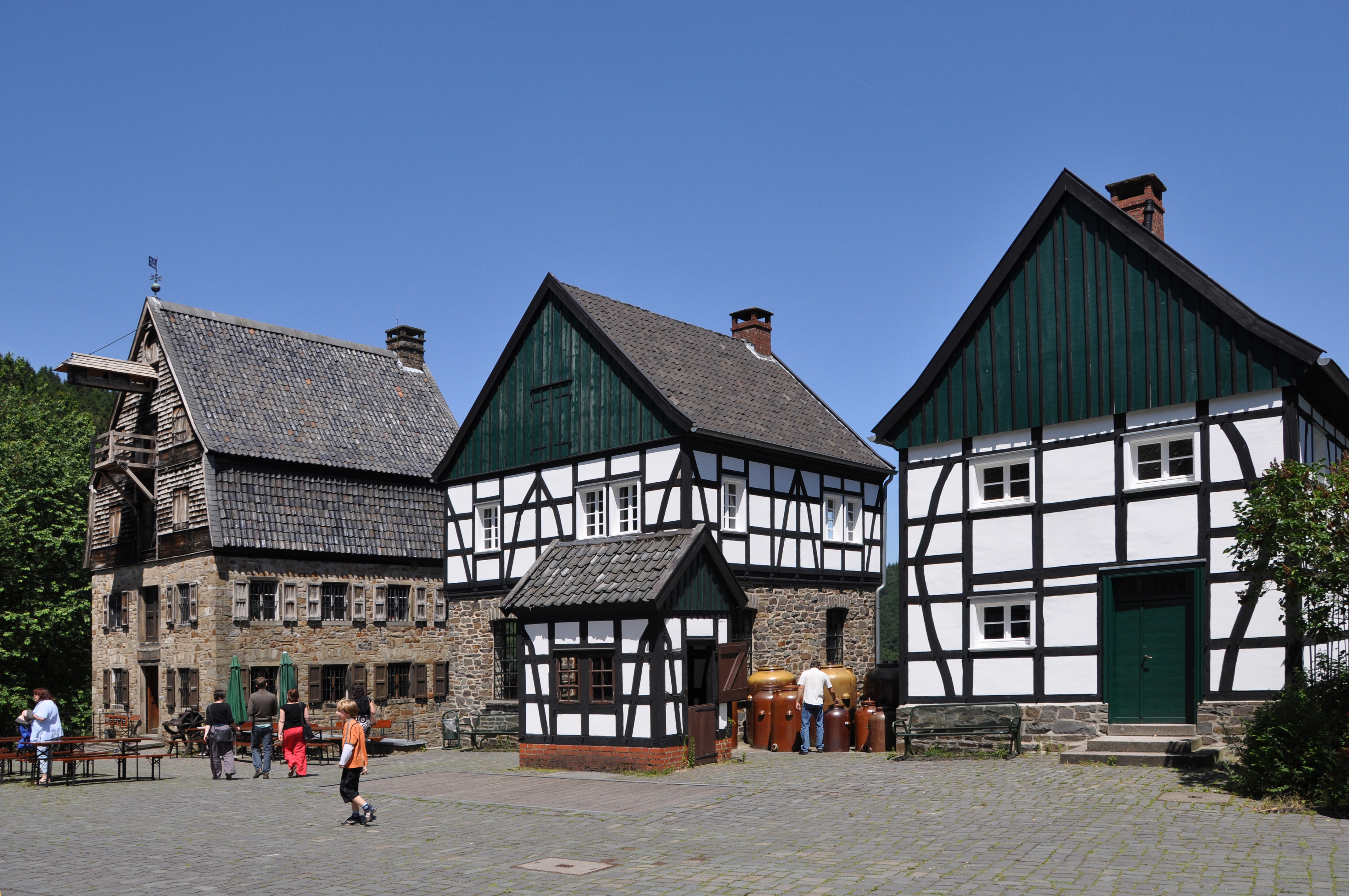 Hagen (Germany): the LWL open air museum (Westfälisches Landesmuseum für Handwerk und Technik), with the brewery, the Mayor's house and the small weighing house